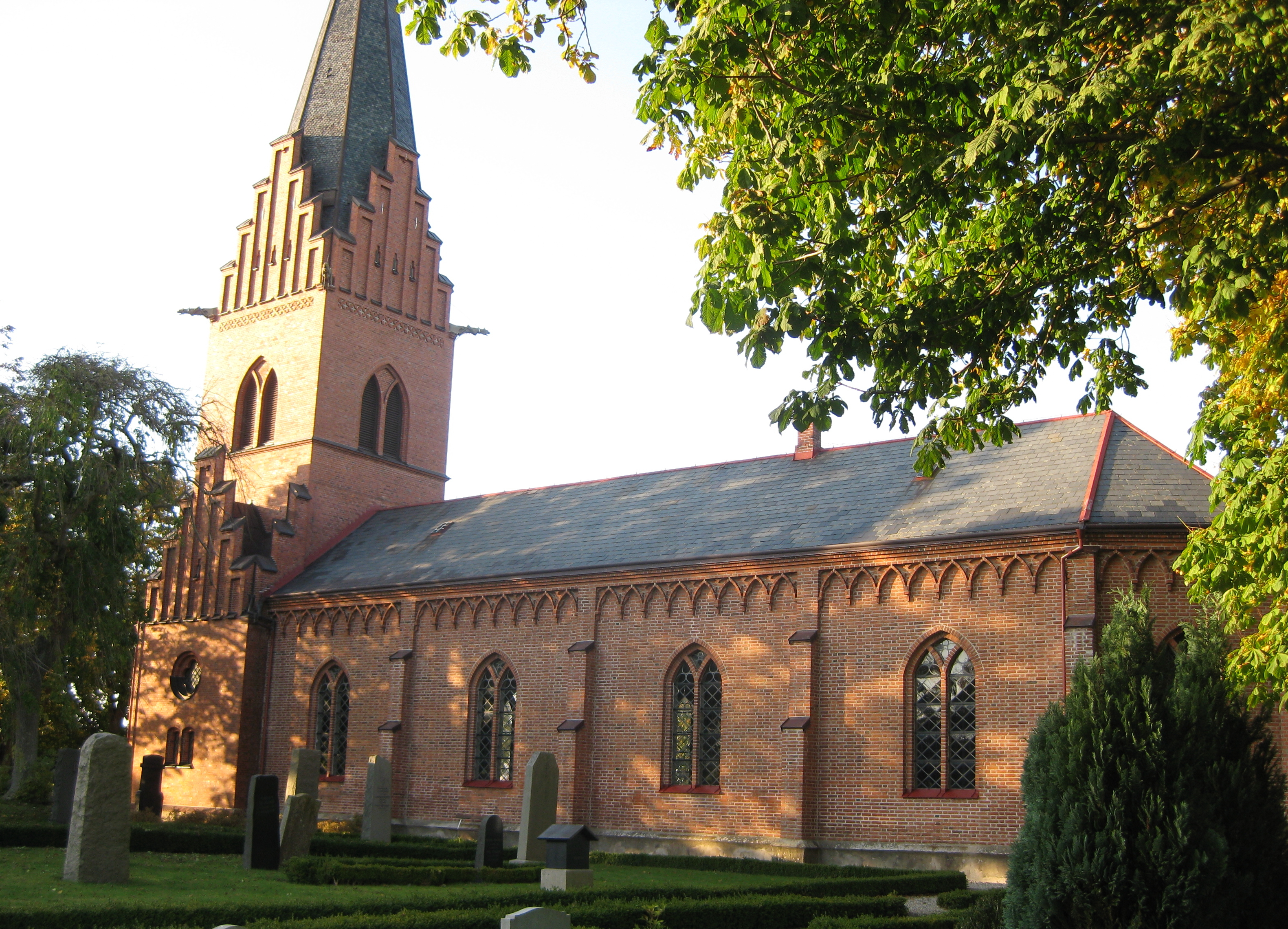 Källstorp church, Skåne, Sweden